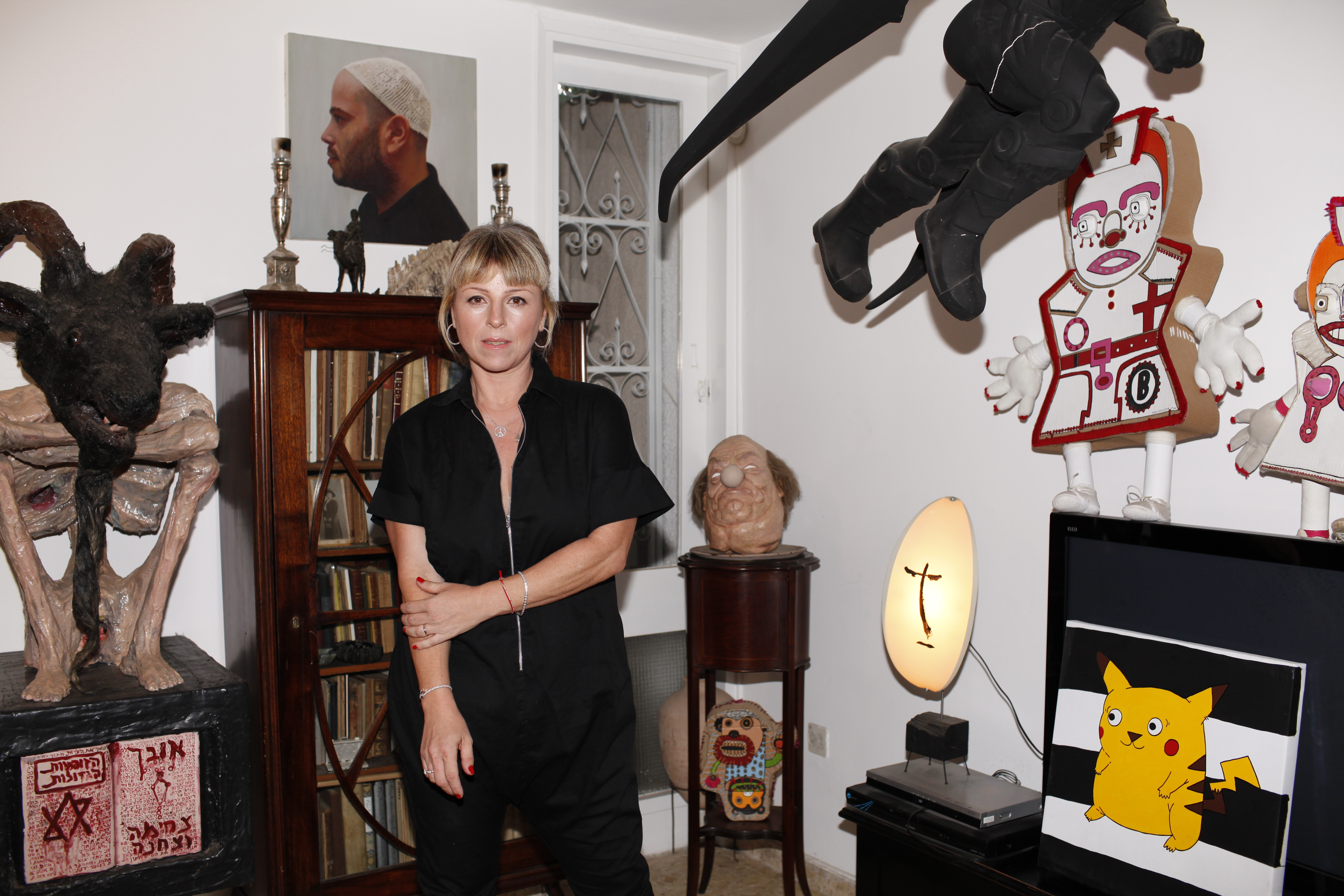 A portrait of artist Keren Shpilsher by photographer Sherban Lupo